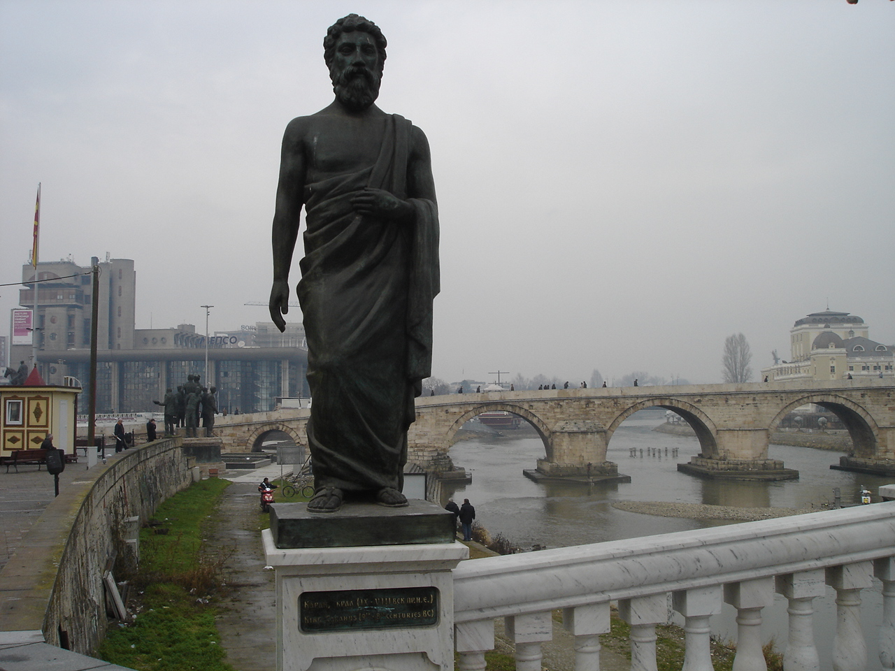 The first ancient Macedonian king Caranus of Macedon in Skopje, Macedonia